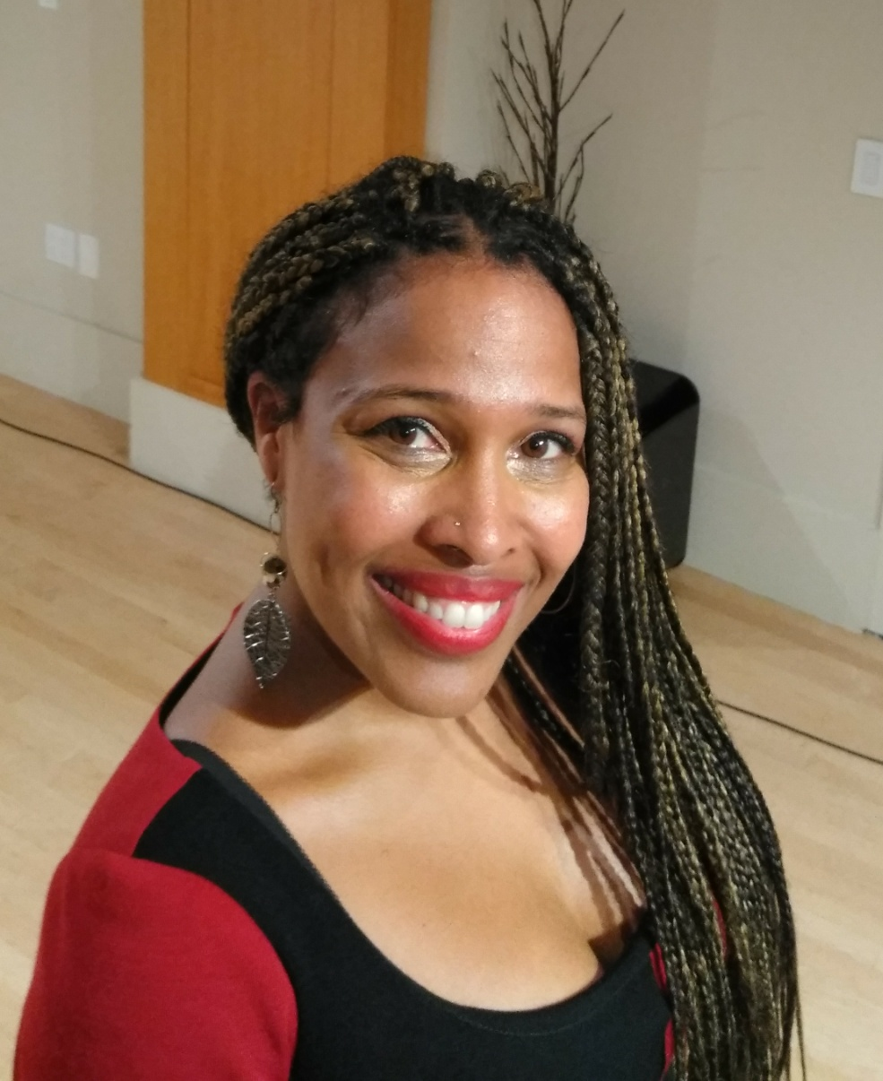 Jazz and Opera vocalist from Cape Town, South Africa.